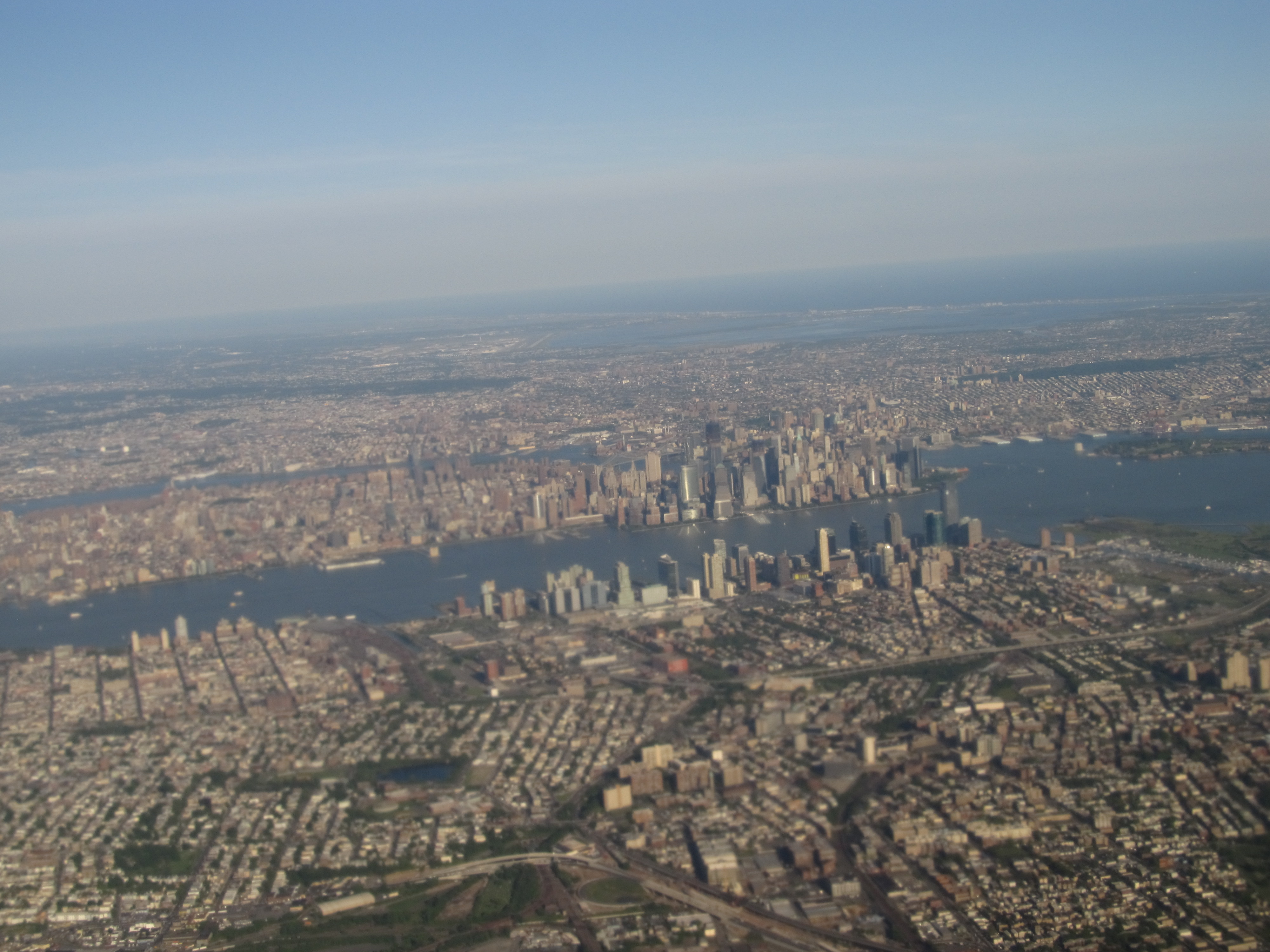 Great views of New York City flying north out of Newark-Liberty International Airport.